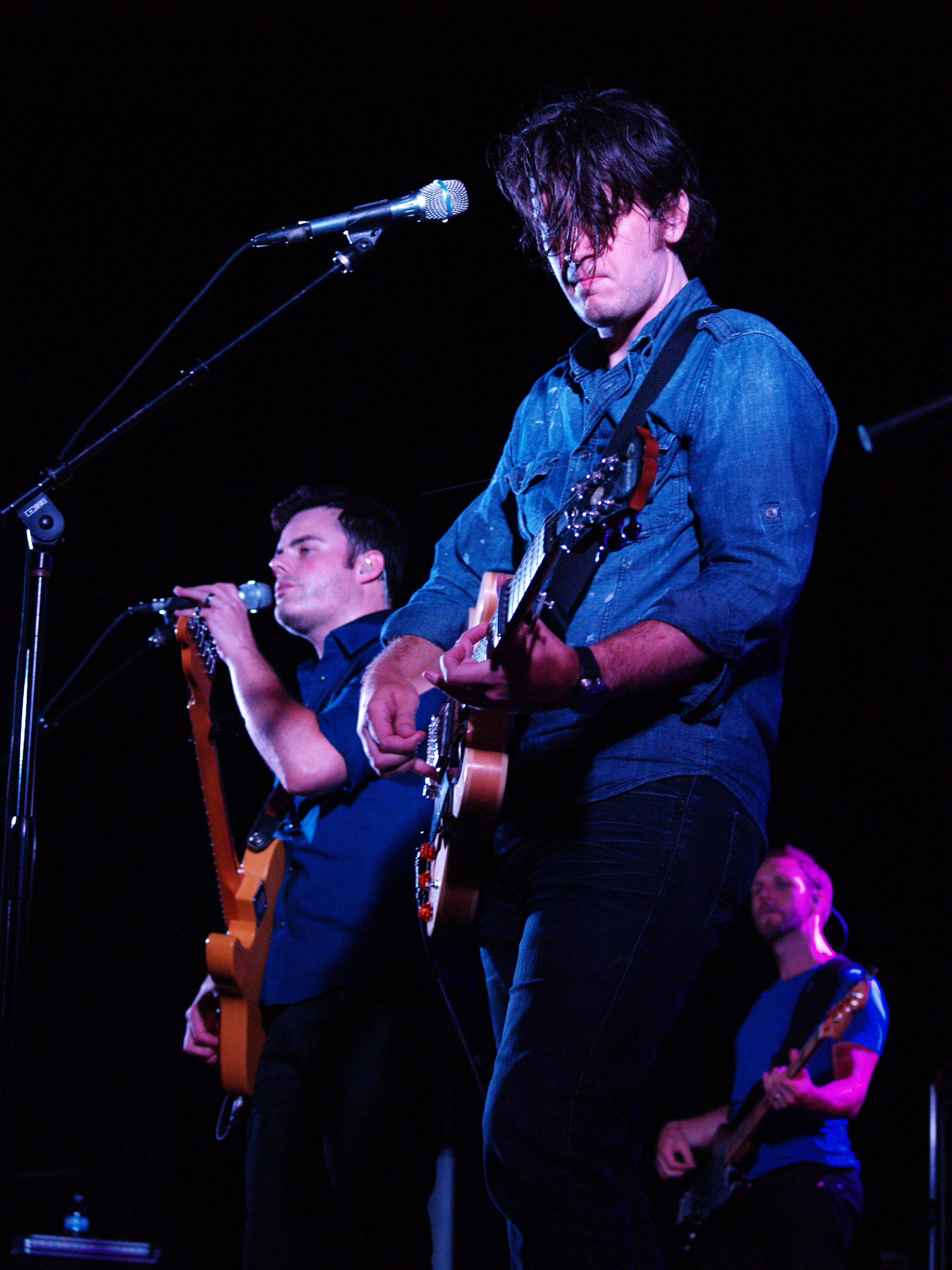 Three of the four members of Christian rock band downhere (left to right: Marc Martel, Jason Germain, Glenn Lavender)